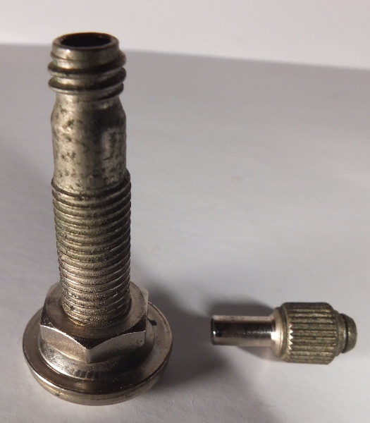 Regina Valve with its metal cap removed